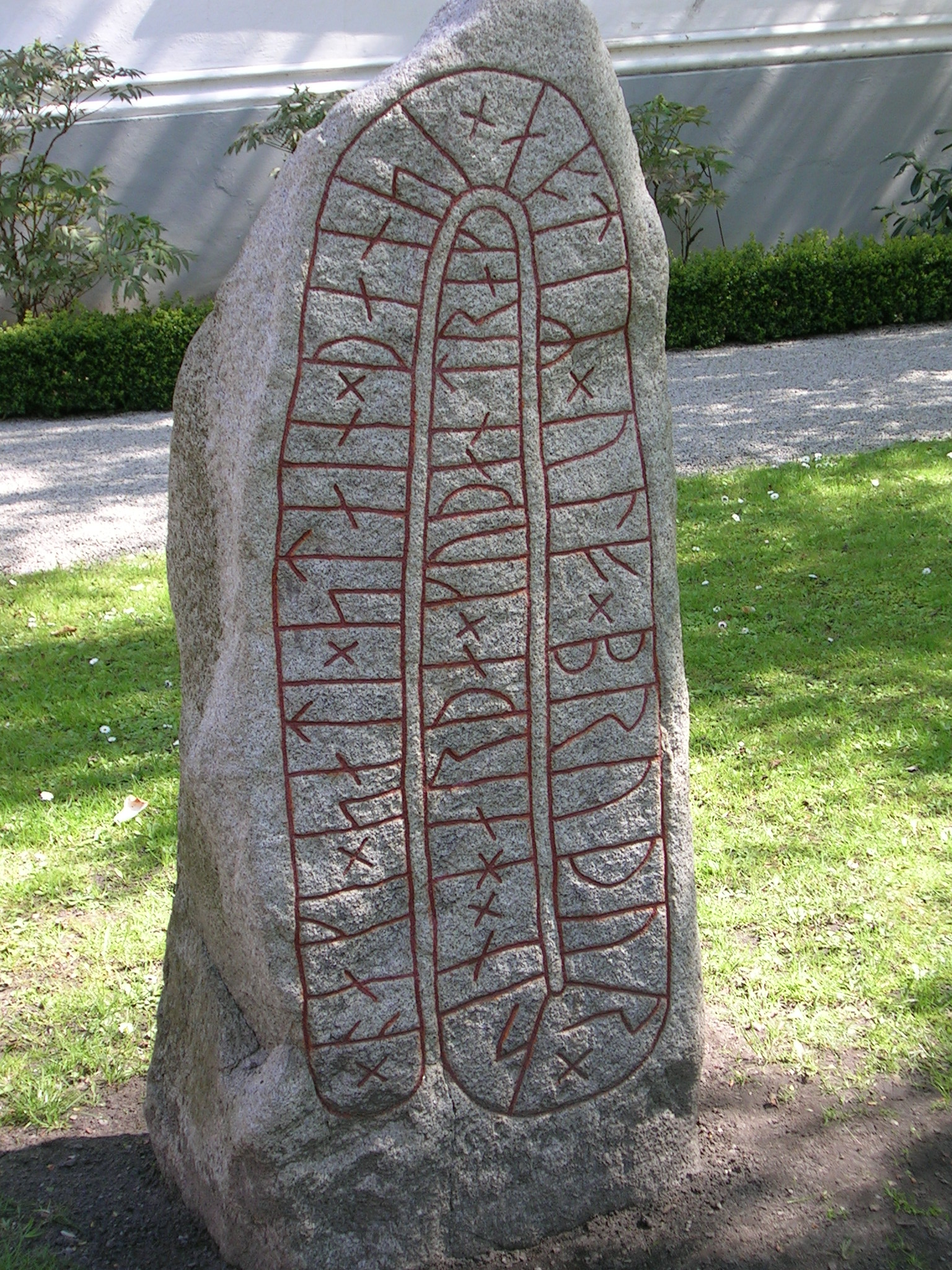 The runestone DR 288. The inscription reads × oaki × sati × stain × þansi × aftiR × ulf × bruþur × sin × harþa × kuþan × trak ×. In English "Áki placed this stone in memory of Ulfr, his brother, a very good valiant man."